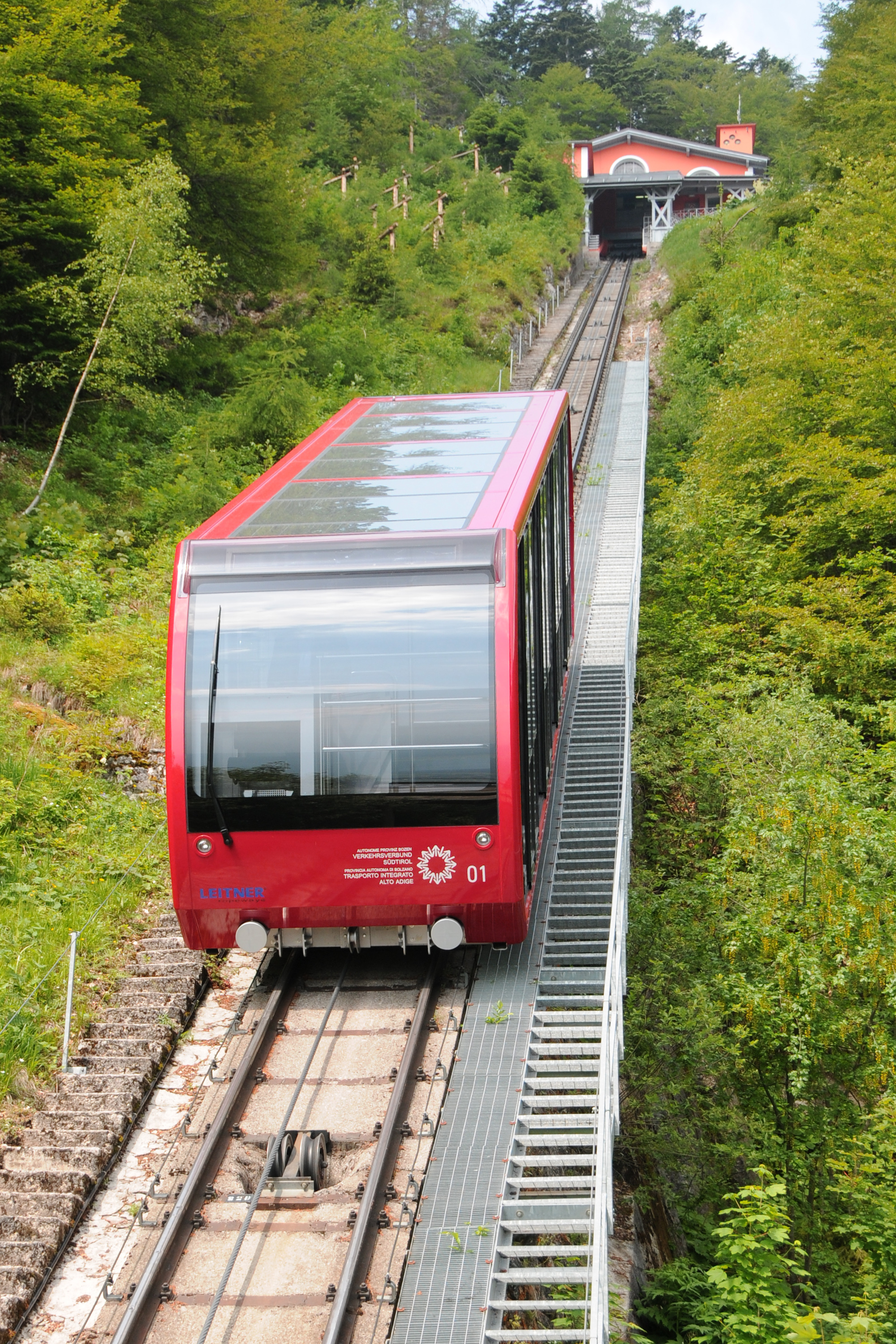 Funicular Mendola, new train from 2009, departure from top station down to Kaltern (it: Caldaro)